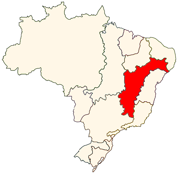 Hydrographics regions in Brazil - São Francisco